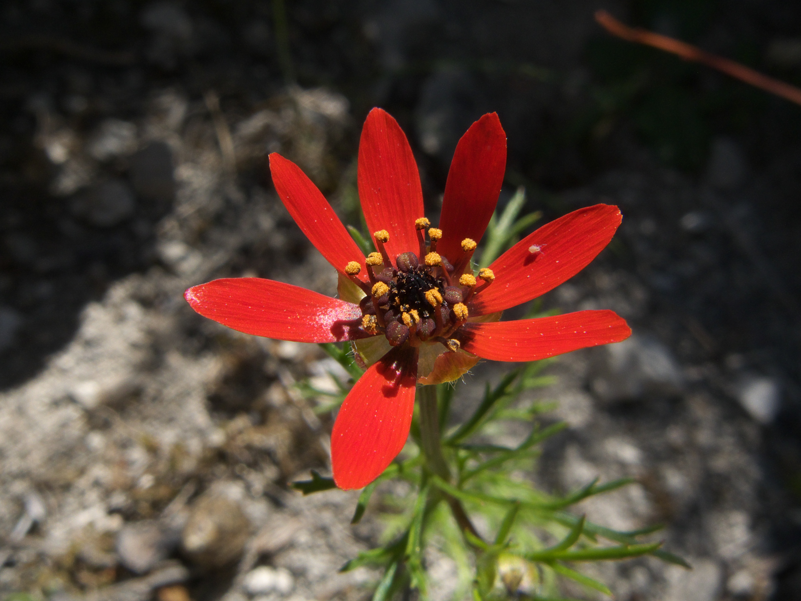 Flor de Adonis flammea (Rivas Vaciamadrid, Madrid)